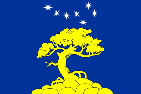 Flag of Pyaozerskoe urban settlement, Karelia, Russia